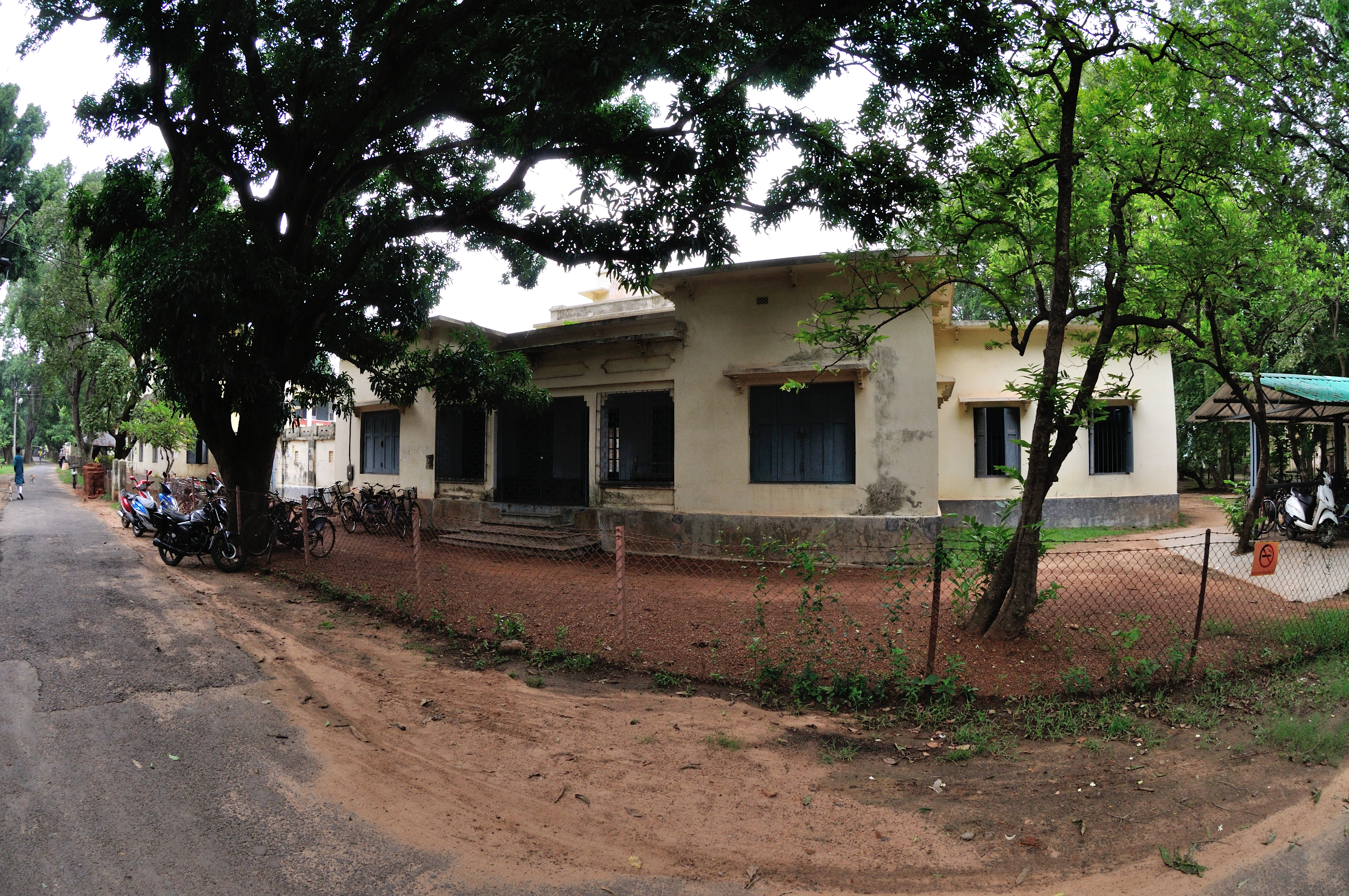 The Sangeet Bhavan or College of Dance and Music. Photographed at The Visva-Bharati University complex, Santiniketan.